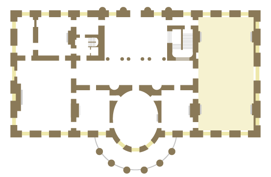 Floorplan of White House State Floor showing location of the East Room. 21.02.07, Jim Hood